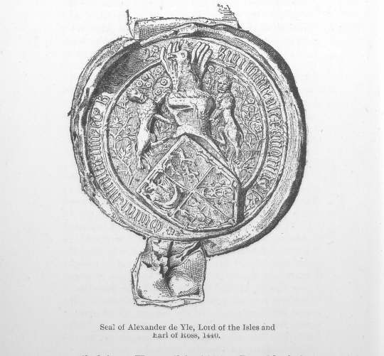 This illustration of the seal Alexander of Islay, Earl of Ross and Lord of the Isles was taken from D Murray Rose's The Earldom of Ross (1900).Am Baile